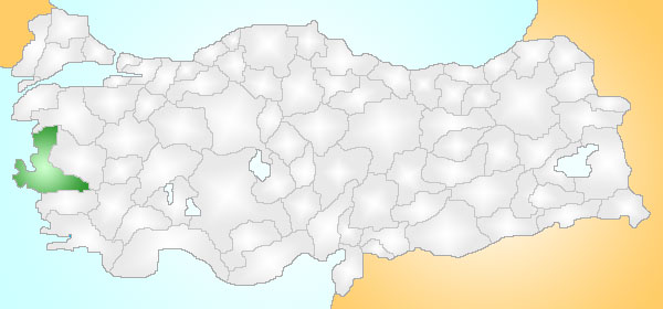 Shows the location of the İzmir province in Turkey